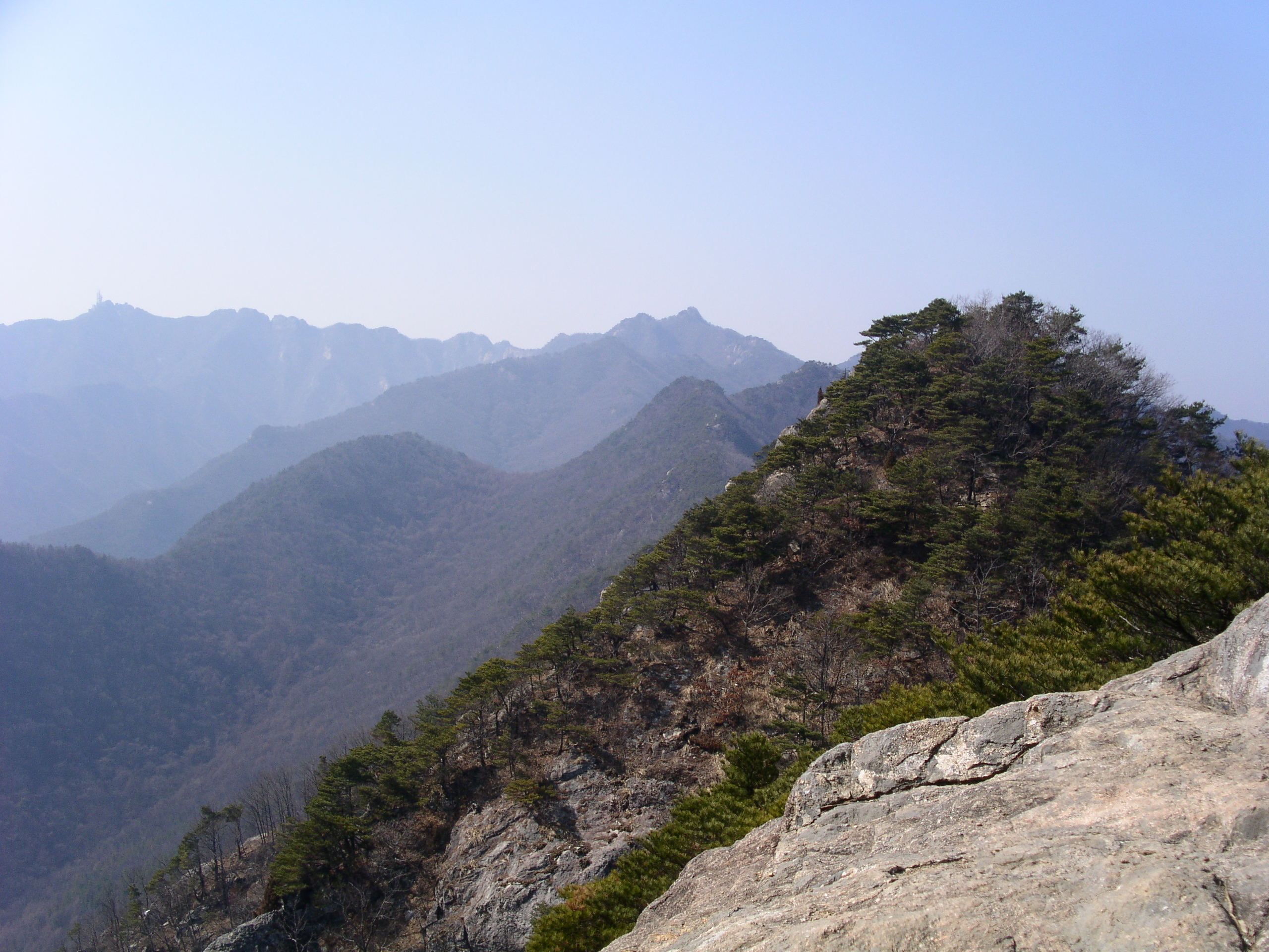 Photograph of Mount Gyeryong near Daejeon in South Korea taken from Jang-gun peak.